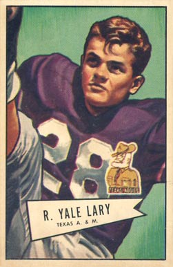 American football player Yale Lary on a 1952 Bowman Large card.